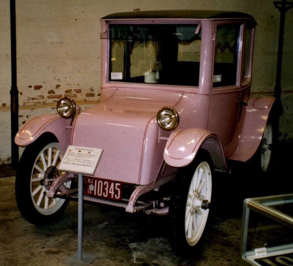 Milburn Light Electric